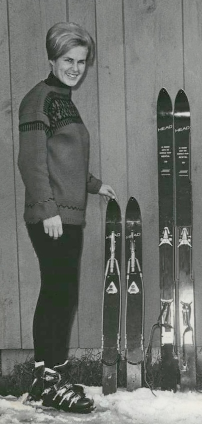 1969 Press Photo Skier Penny Pitou & a display of different size skis